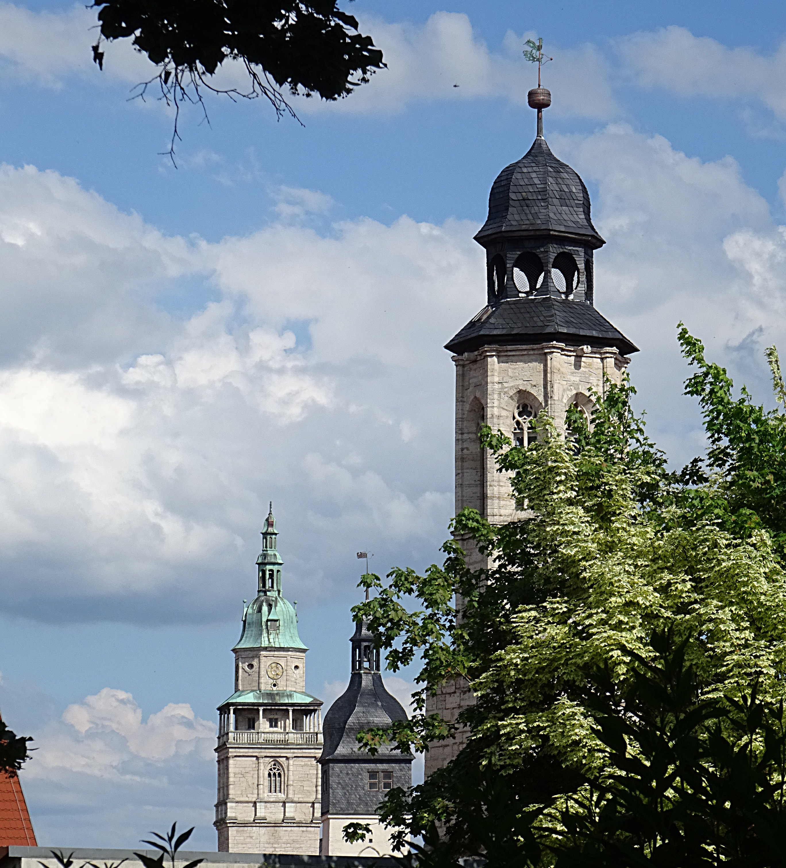 Bad Langensalza, three-tower view from Gottesacker to Augustinerkloster, town hall and Marktkirche (from right to left)